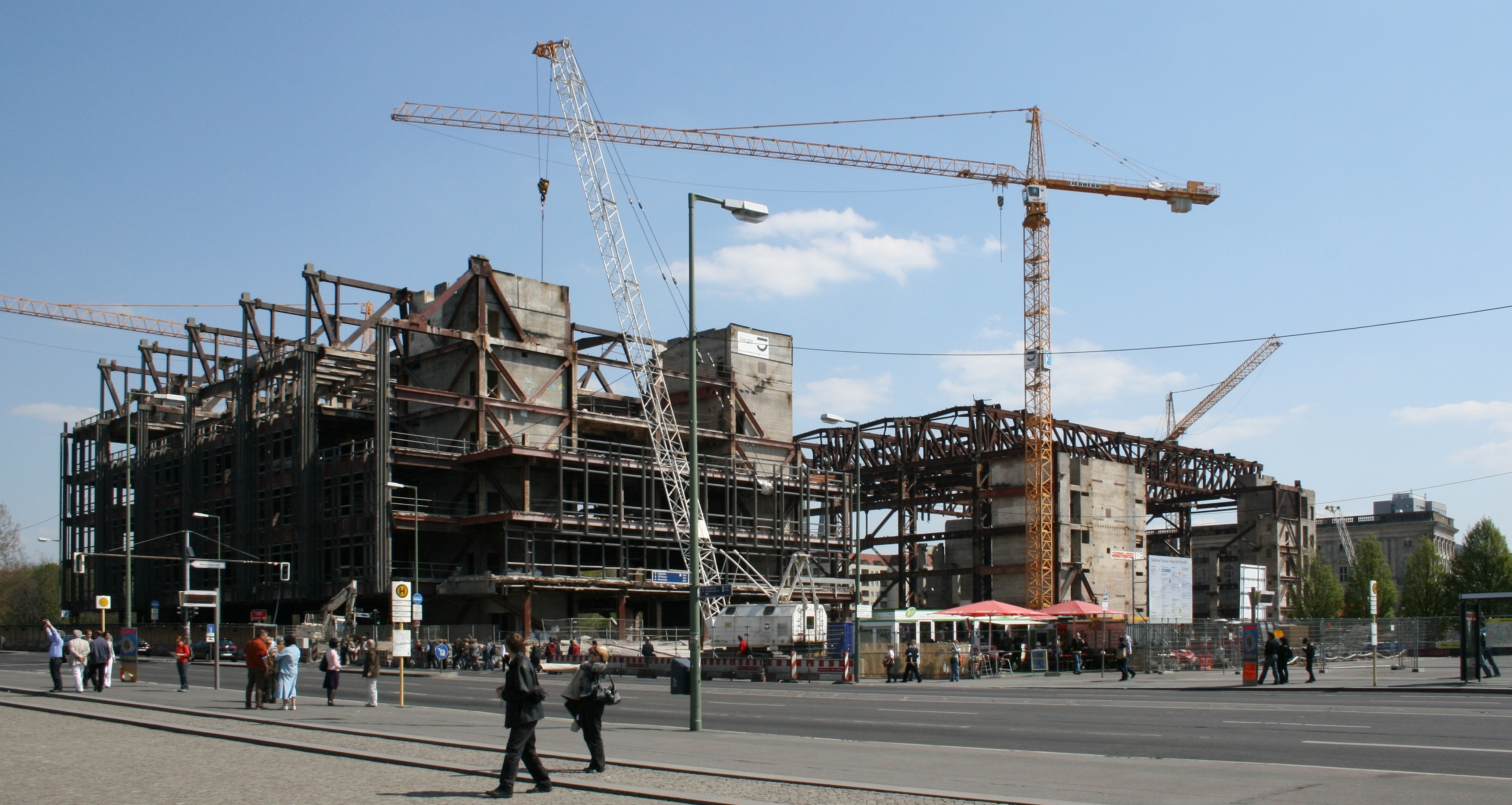 Berlin, Germany: Palast der Republik, (republic's palace) back construction